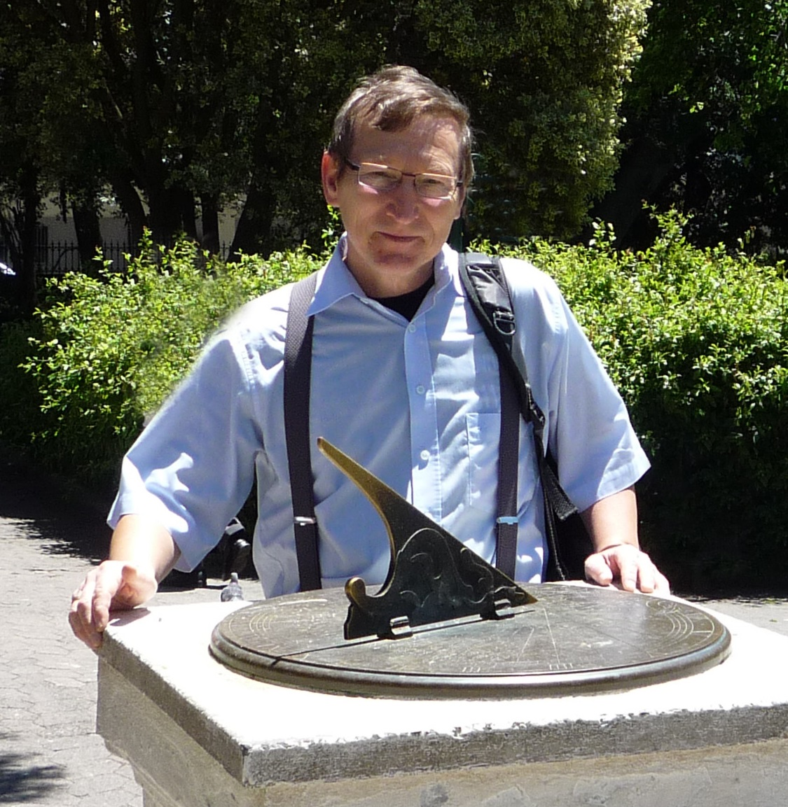 Janusz Kaluzny in Cape Town, a visit concerning his works with South African Large Telescope (SALT)